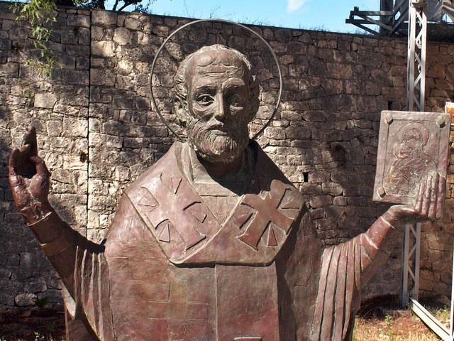 Demre-Myra